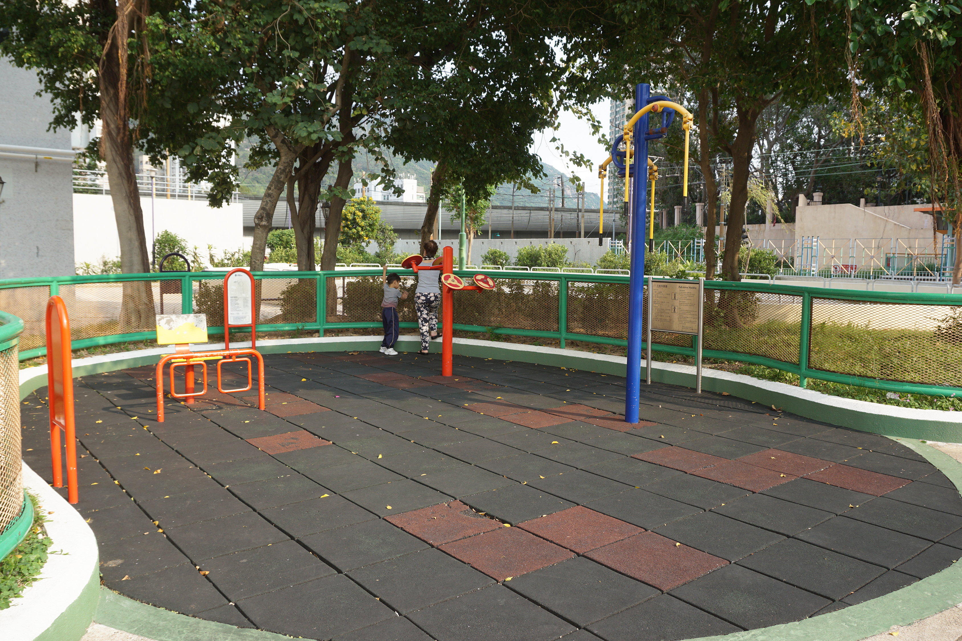 Affluence Garden in Tuen Mun, Hong Kong.